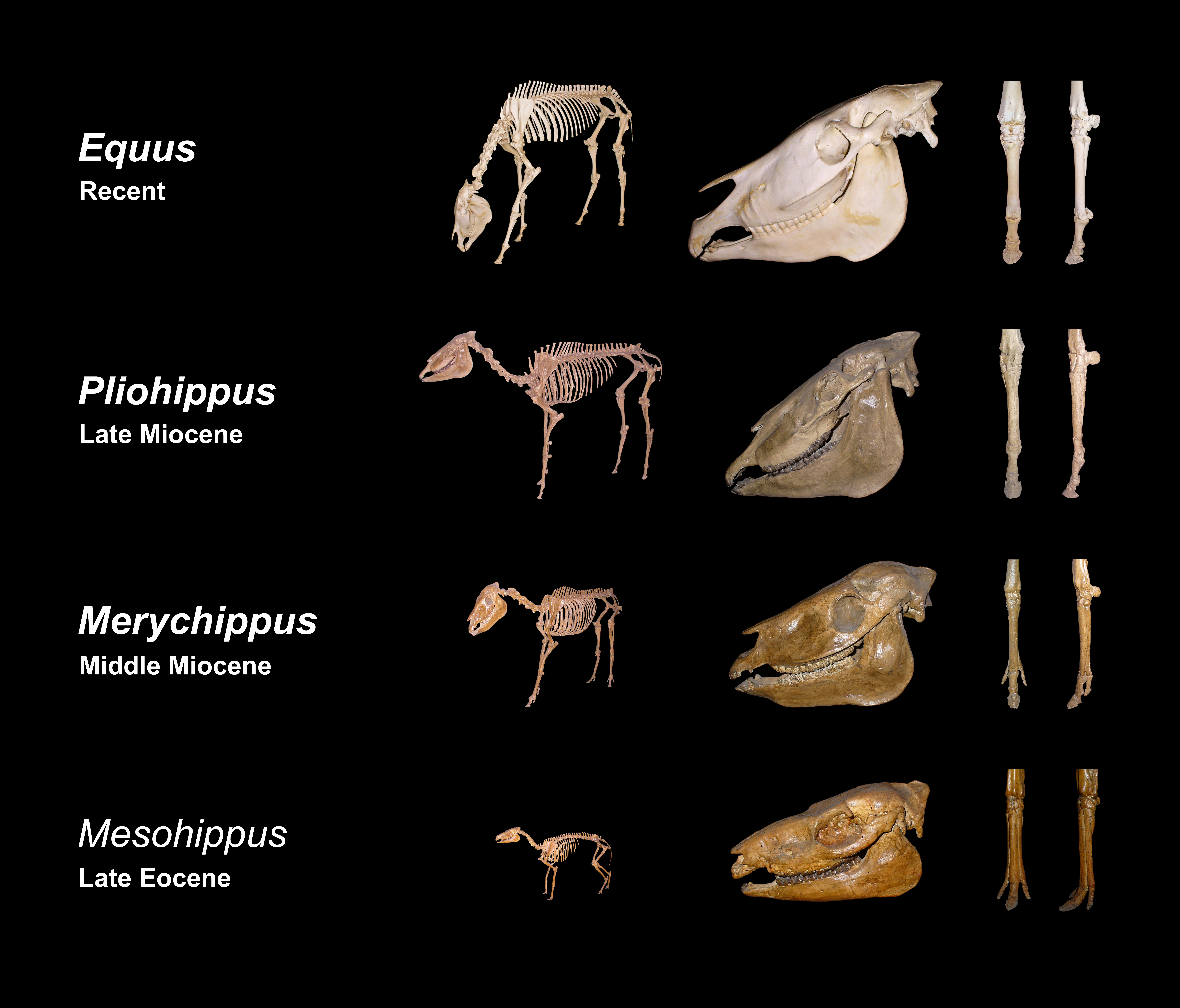 Equine evolution. Composed from Skeletons of Staatliches Museum für Naturkunde Karlsruhe, Germany. From left to right: Size development, biometrical changes in the cranium, reduction of toes (left forefoot) Highest point of the withers Equus 1.5 m Pliohippus 1.2 m Merychippus 0.8 m Mesohippus 0.5 m.